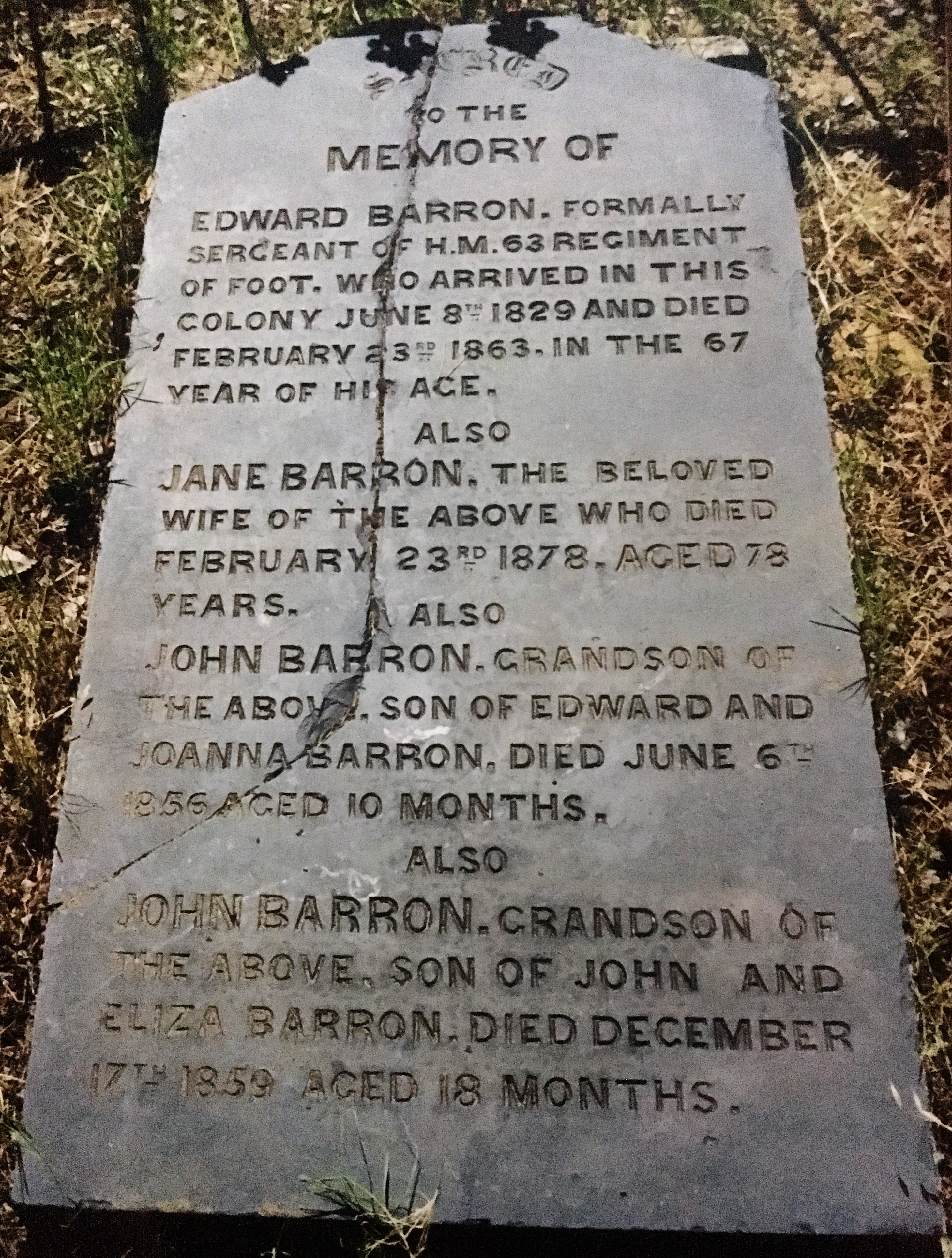 Headstone of Edward Barron; 63rd Regiment of Foot; East Perth Cemeteries